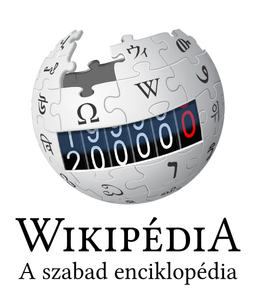 The Hungarian Wikipedia Logo modified to celebrate the 200,000th article on Hungarian Wikipedia